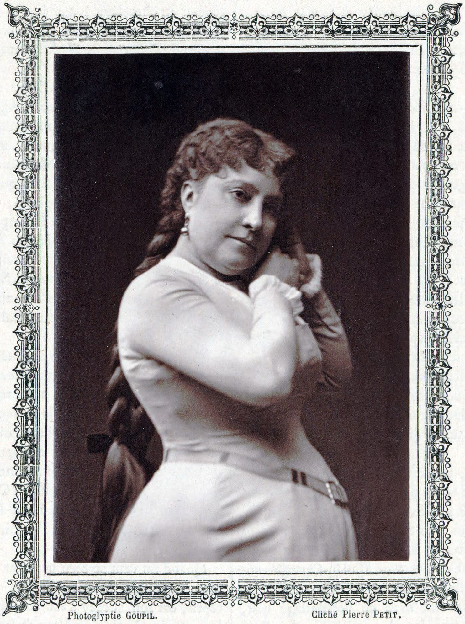 Caroline Carvalho as Margueurite in the opera Faust by Gounod. Published in Camées Artistiques.